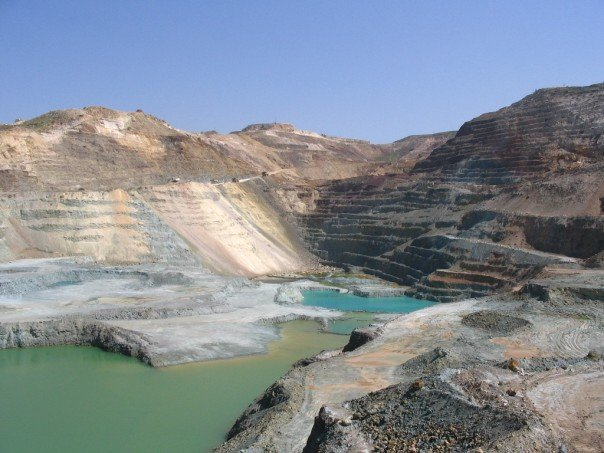 Skoriotissa Mine, Cyprus.